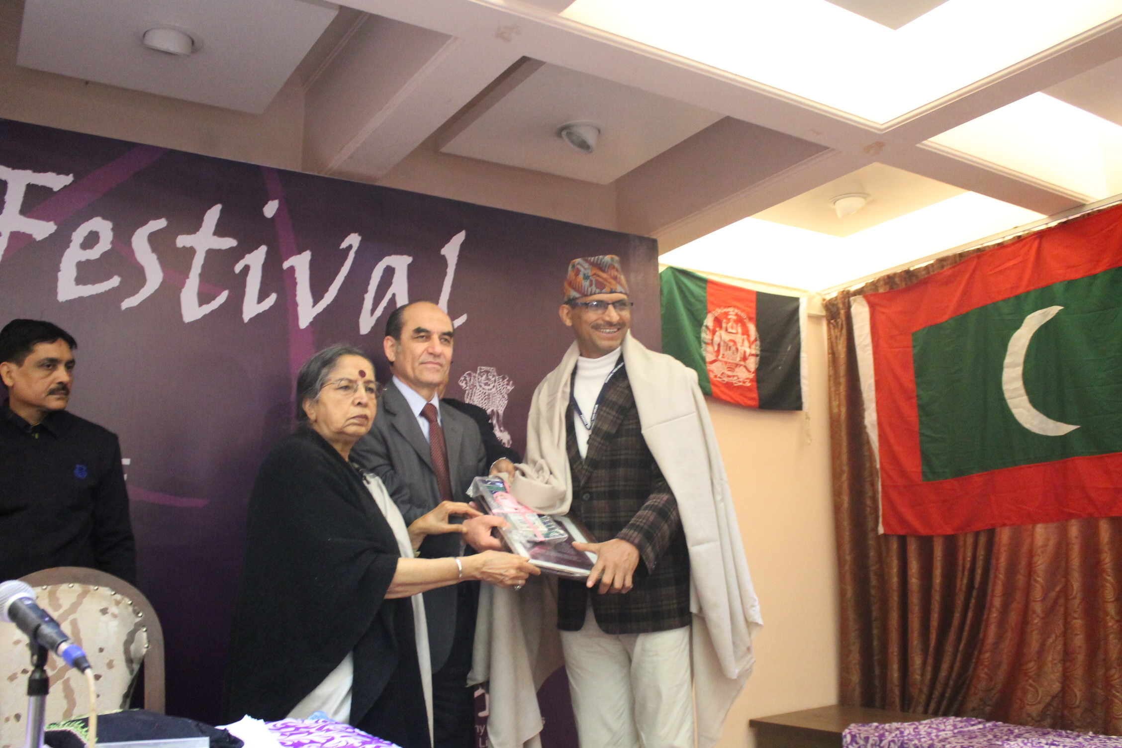 Nepali poet/writer Suman Pokhrel receiving SAARC Literary Award 2015